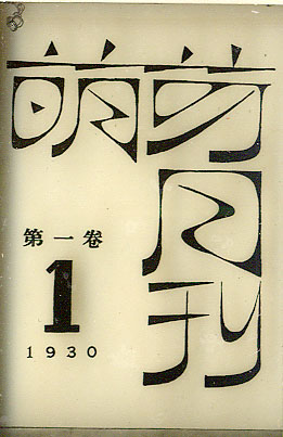 A chinese magazine published in 1930